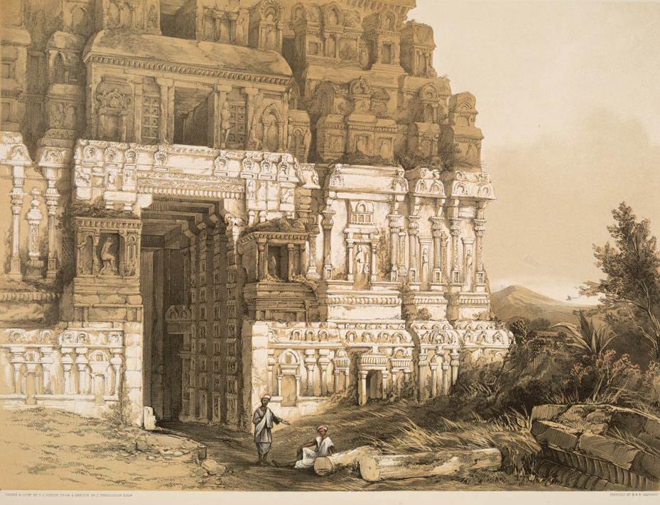 "Gateway at Chillambram [Chidambaram]"